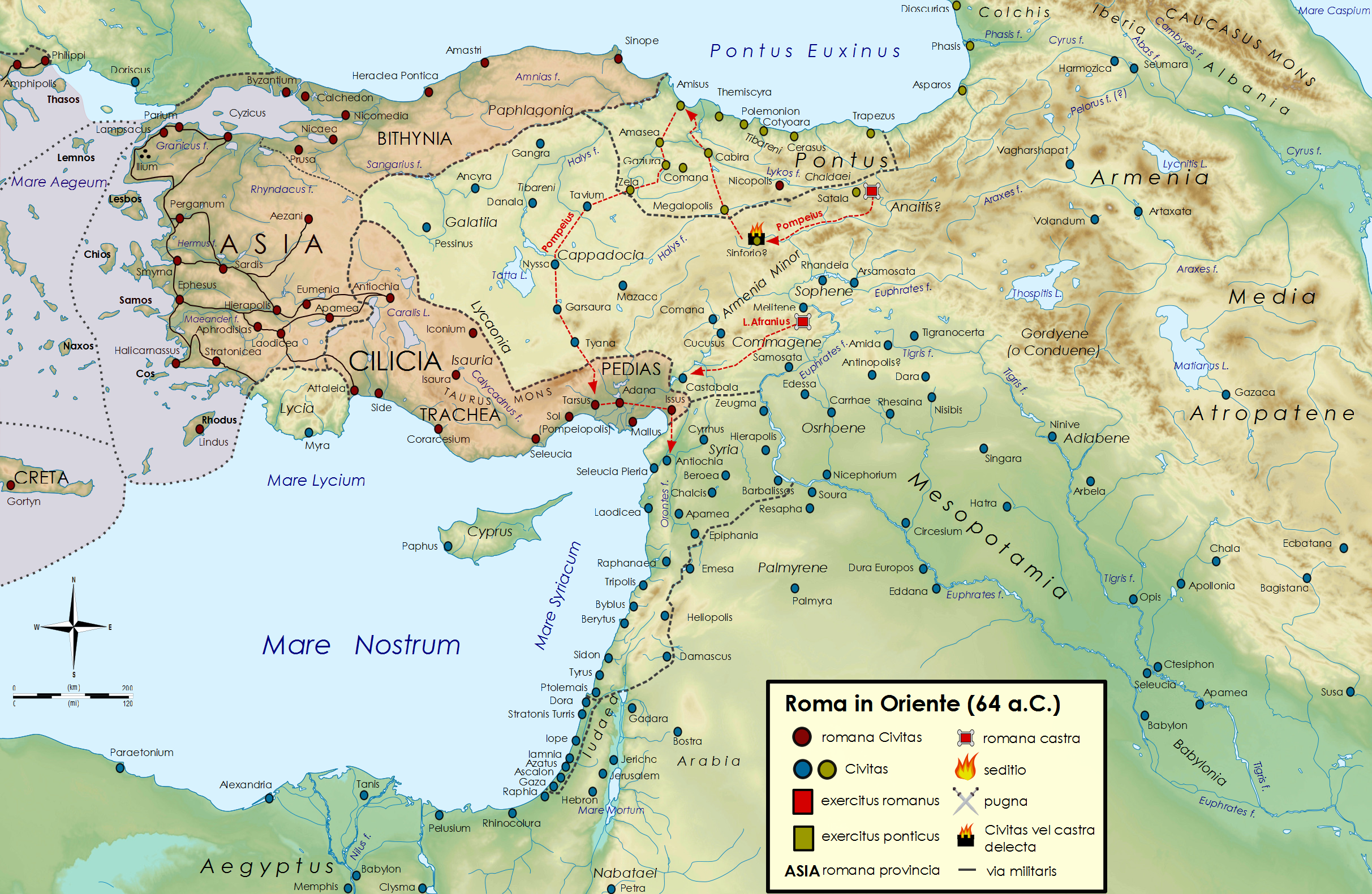 Roman republic in the Near East in 64 B.C., during the third Mithridatic War